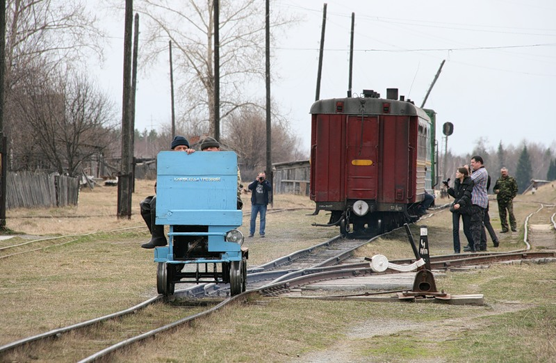 Draisine and passenger train on Alapayevsk narrow-gauge railway in Muratkovo